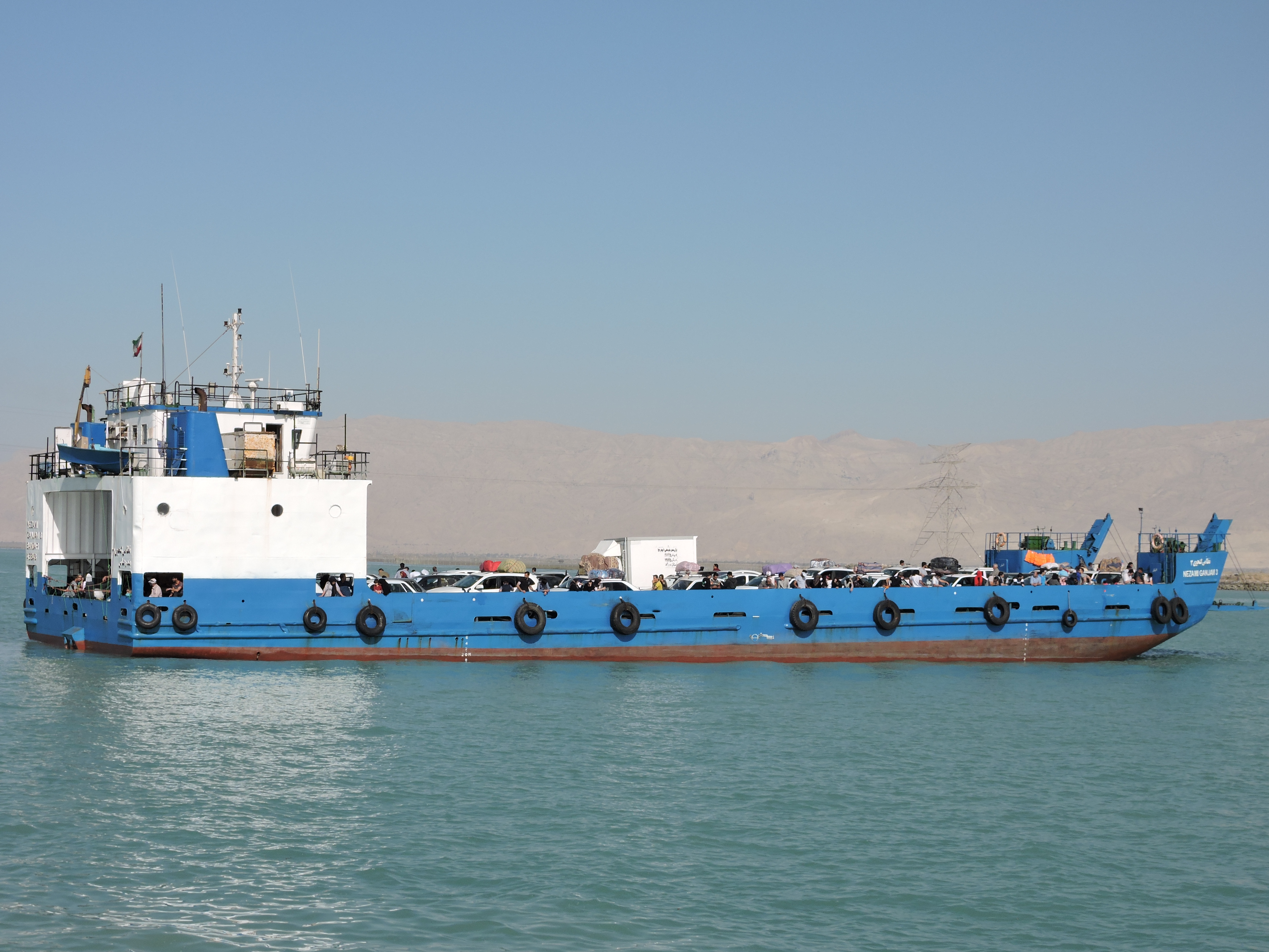 Car Carrier in Qeshm